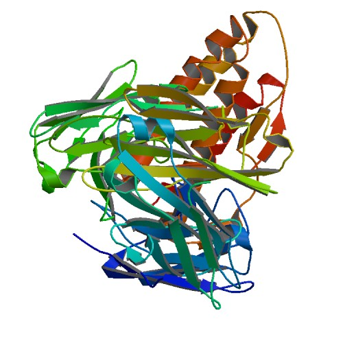 Copied from Image:PBB_Protein_THPO_image.jpg User:ProteinBoxBot